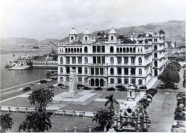 source: Hong Kong Library MMIS Category:Images of Hong Kong Office Buildings